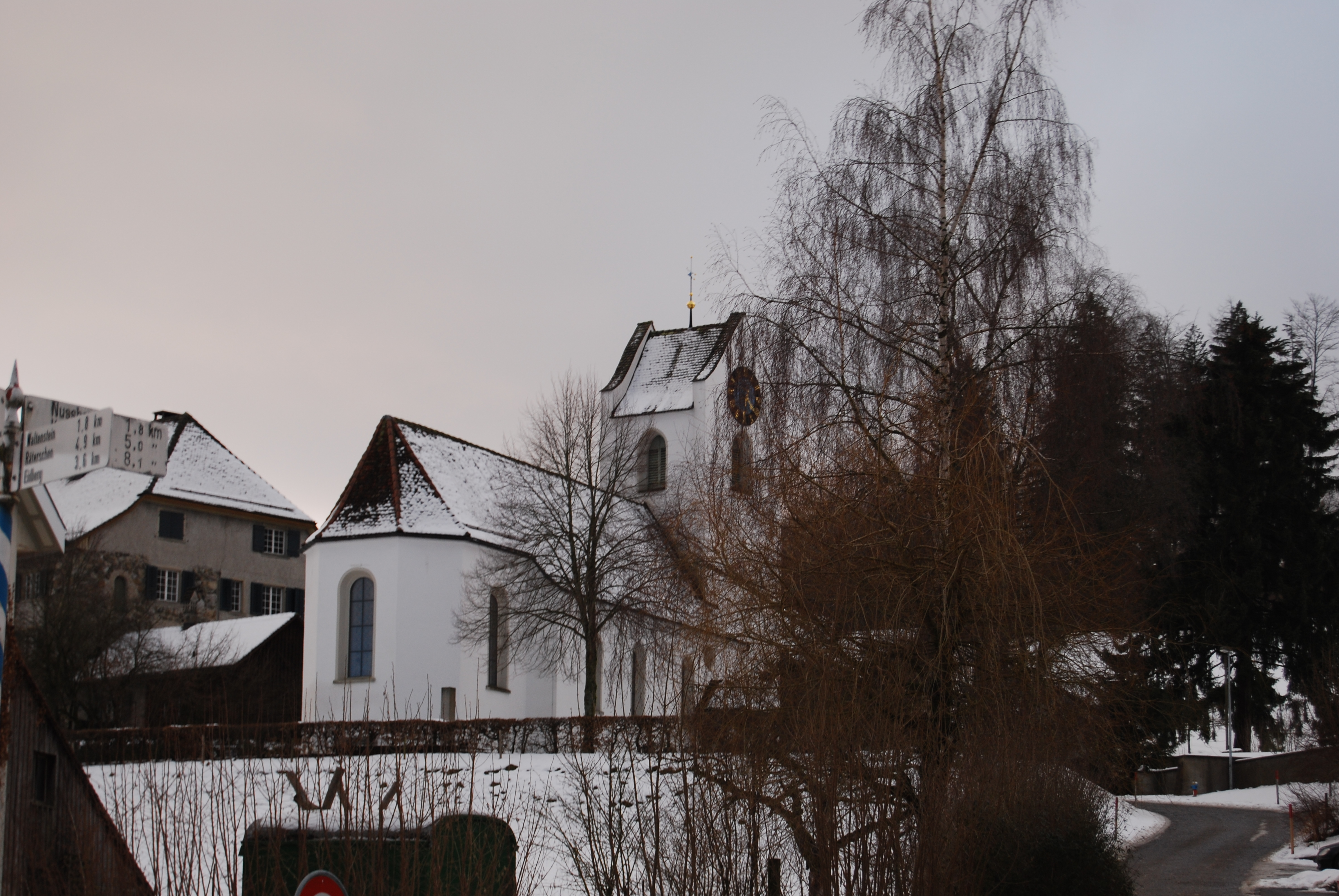 Church of Schlatt, canton of Zürich, SwitzerlandEsperanto: Preĝejo de Schlatt, Kantono Zuriko, Svislando